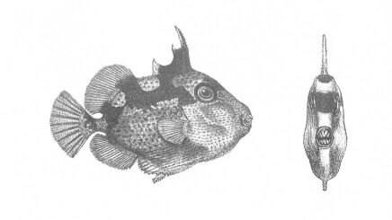 This is an image entitled "Balistes Phaleratus" from Volume 1 of John Lort Stokes' 1846 book Discoveries in Australia. The fish depicted is now known as Abalistes stellaris (Starry Triggerfish).